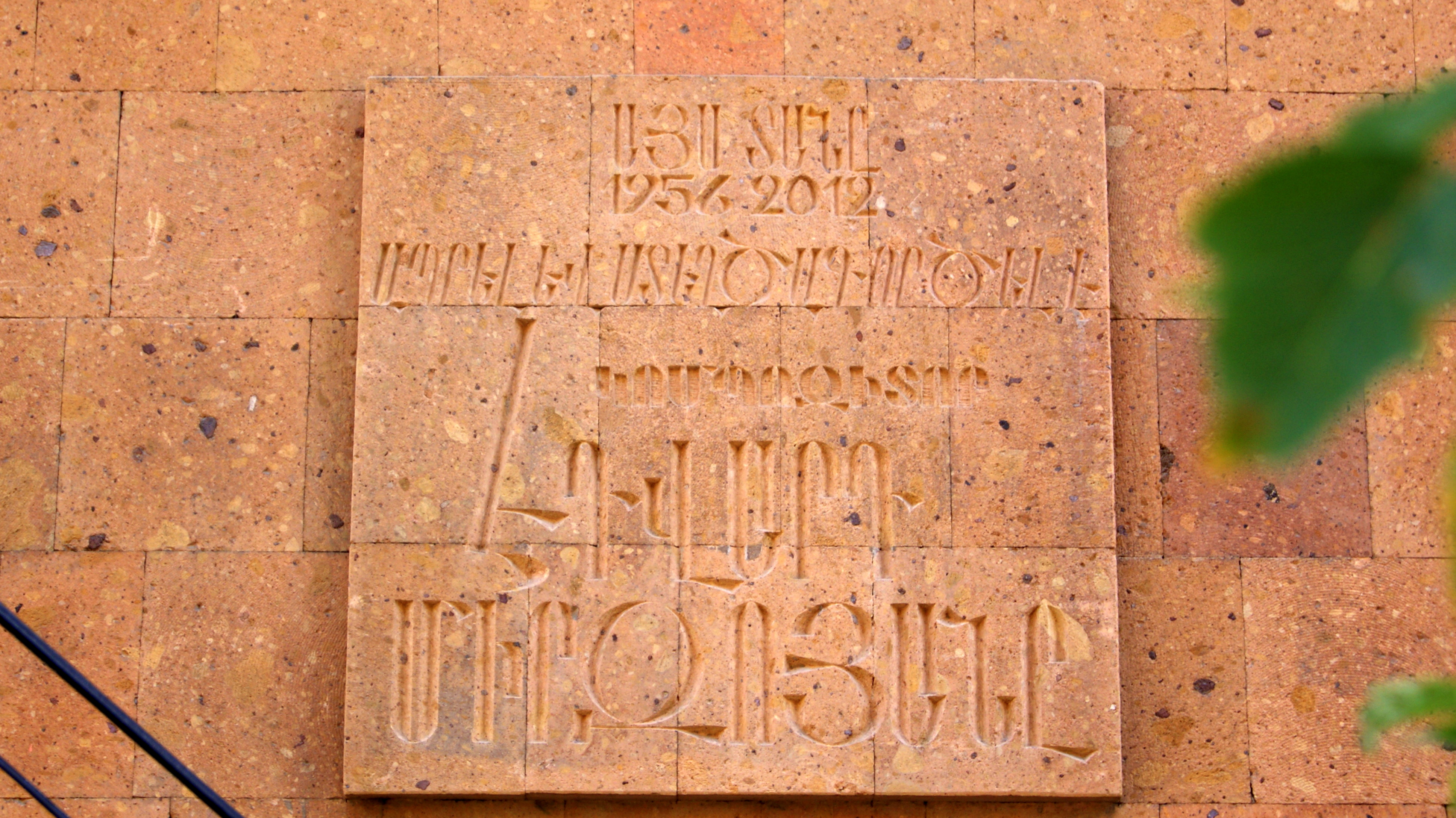 Plaque for Edvard Mirzoyan on the wall of the building where he worked and created during 1956-2012 (now -Composer Union of Armenia)